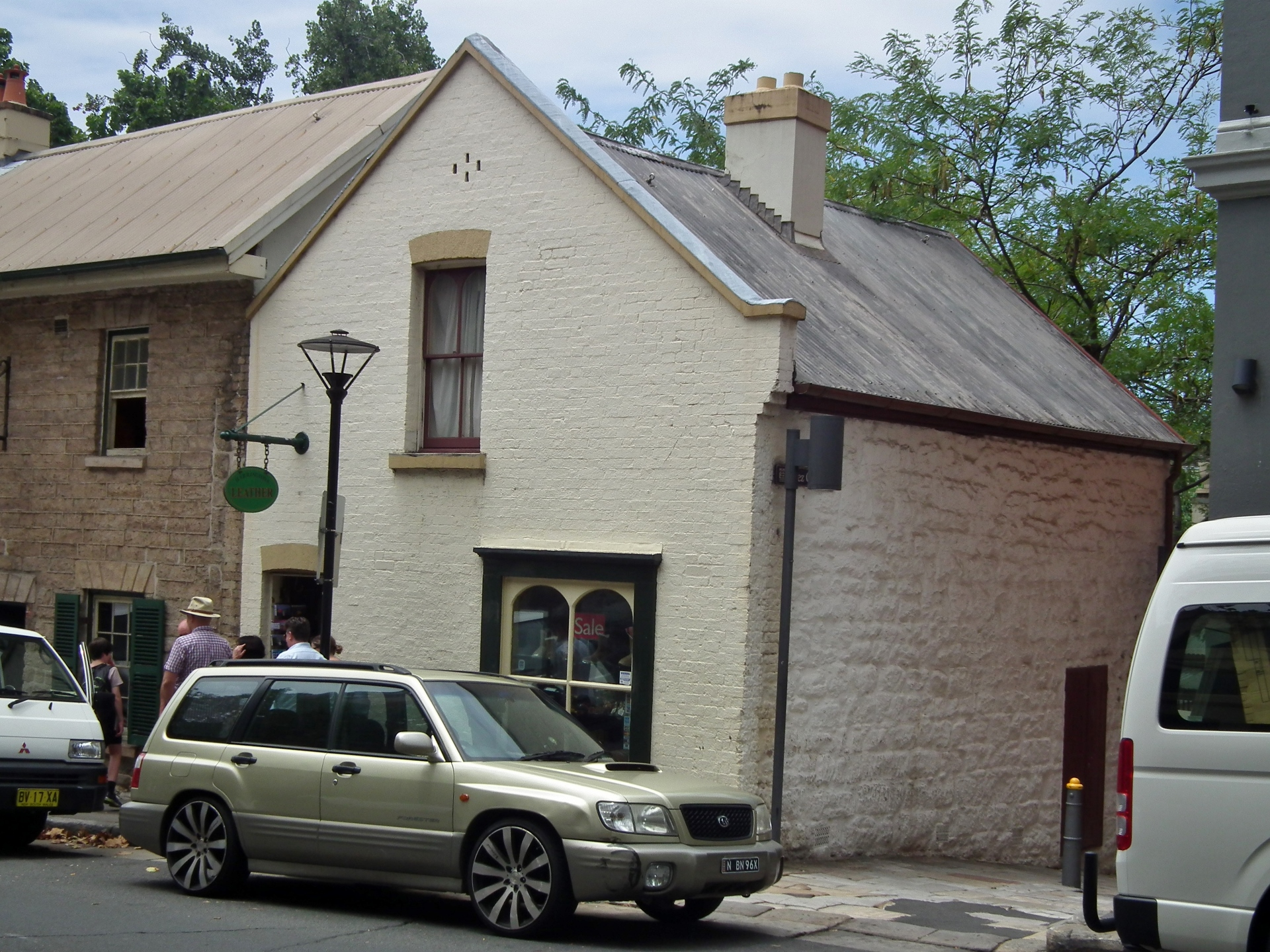 Cottage - The Rocks NSW. Built before 1834 by William Reynolds. Located at 32 Harrington Street, The Rocks.